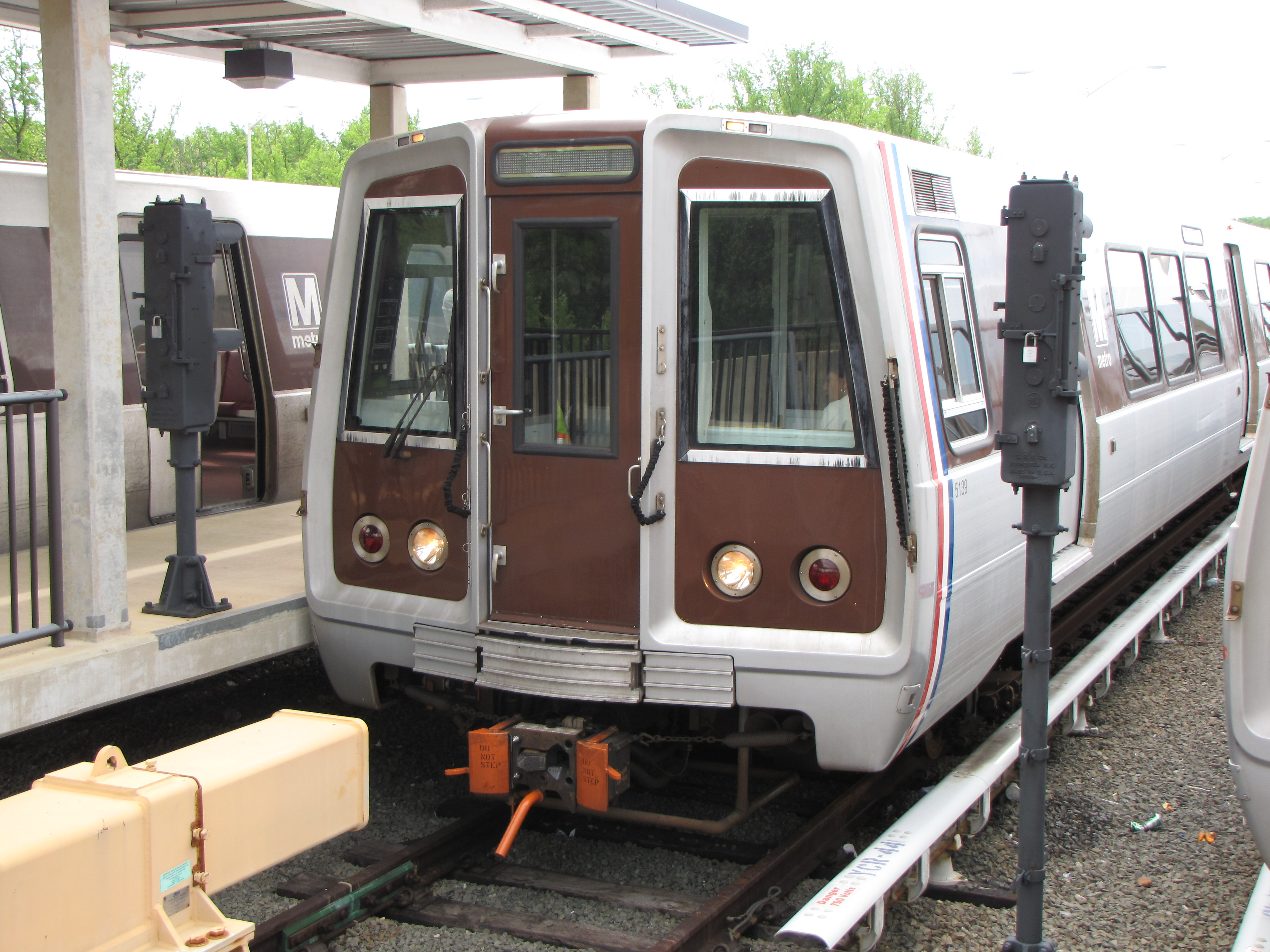 CAF 5139, seen during the 2009 WMATA Rail Rodeo at Branch Avenue Yard in Prince George's County, Maryland.